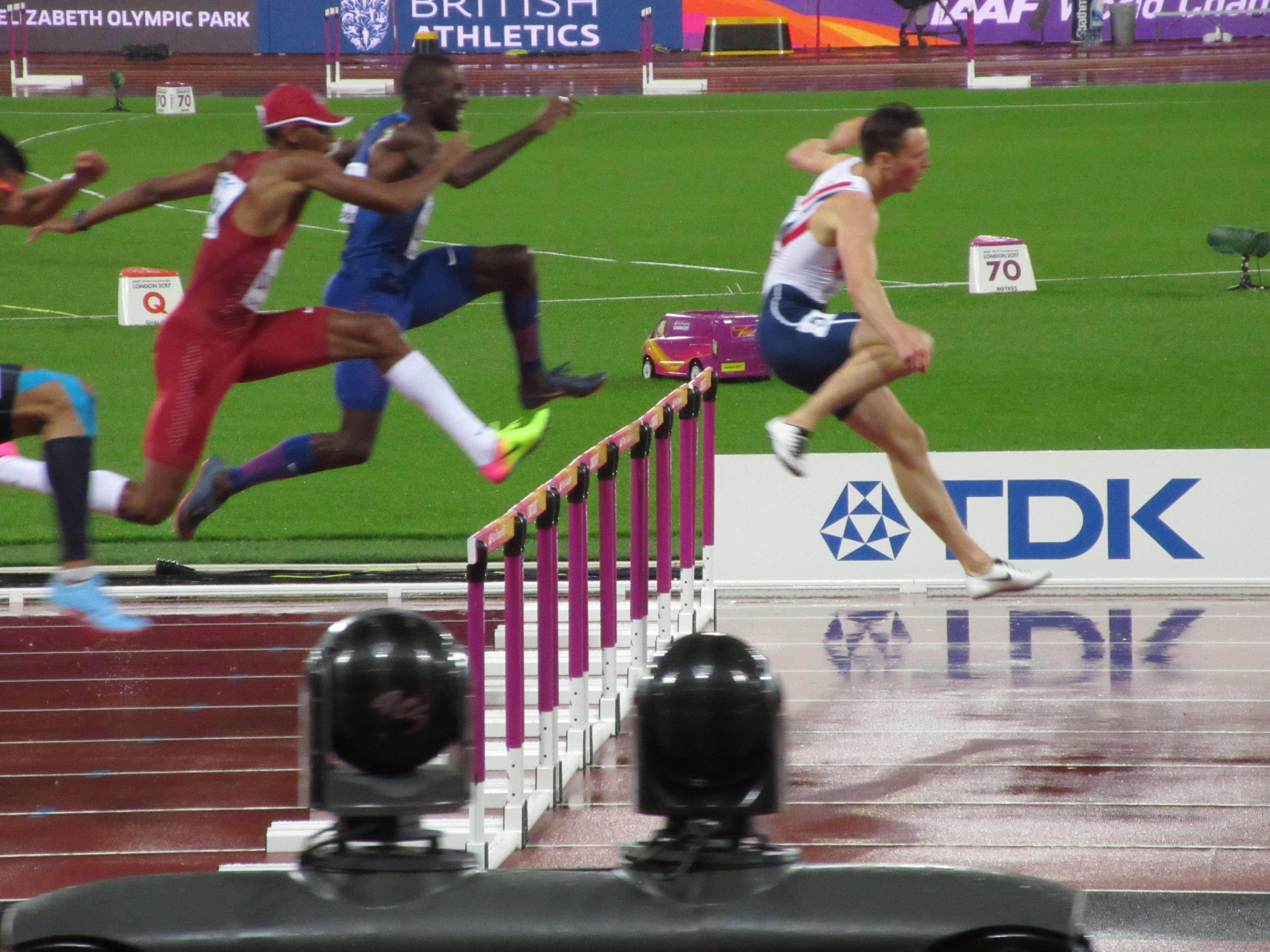 Karsten Warholm in the lead, followed by Kerron Clement and Yasmani Copello